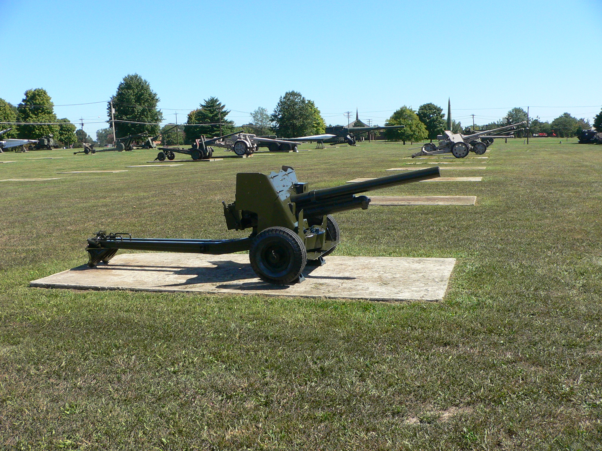 Picture taken by myself, Mark Pellegrini, at the United States Army Ordnance Museum (Aberdeen Proving Ground, MD)